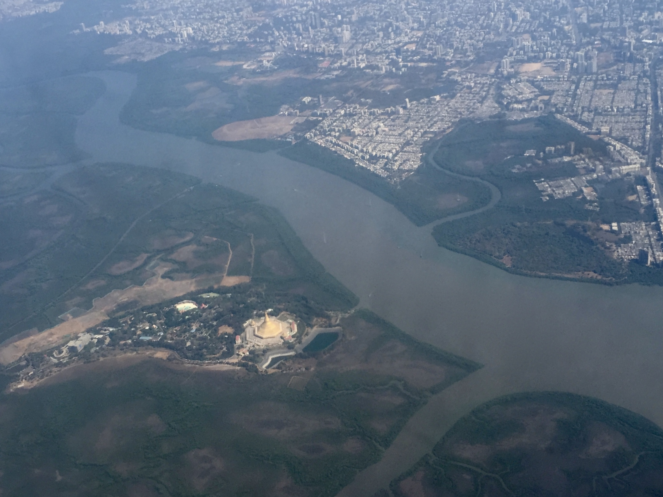 Aerial view of the Gorai Creek. North of Mumbai, India.